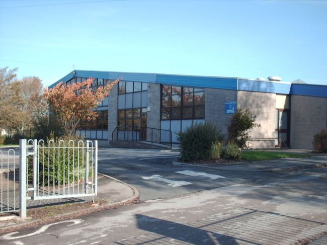 A view of the main Stanah County Primary School building